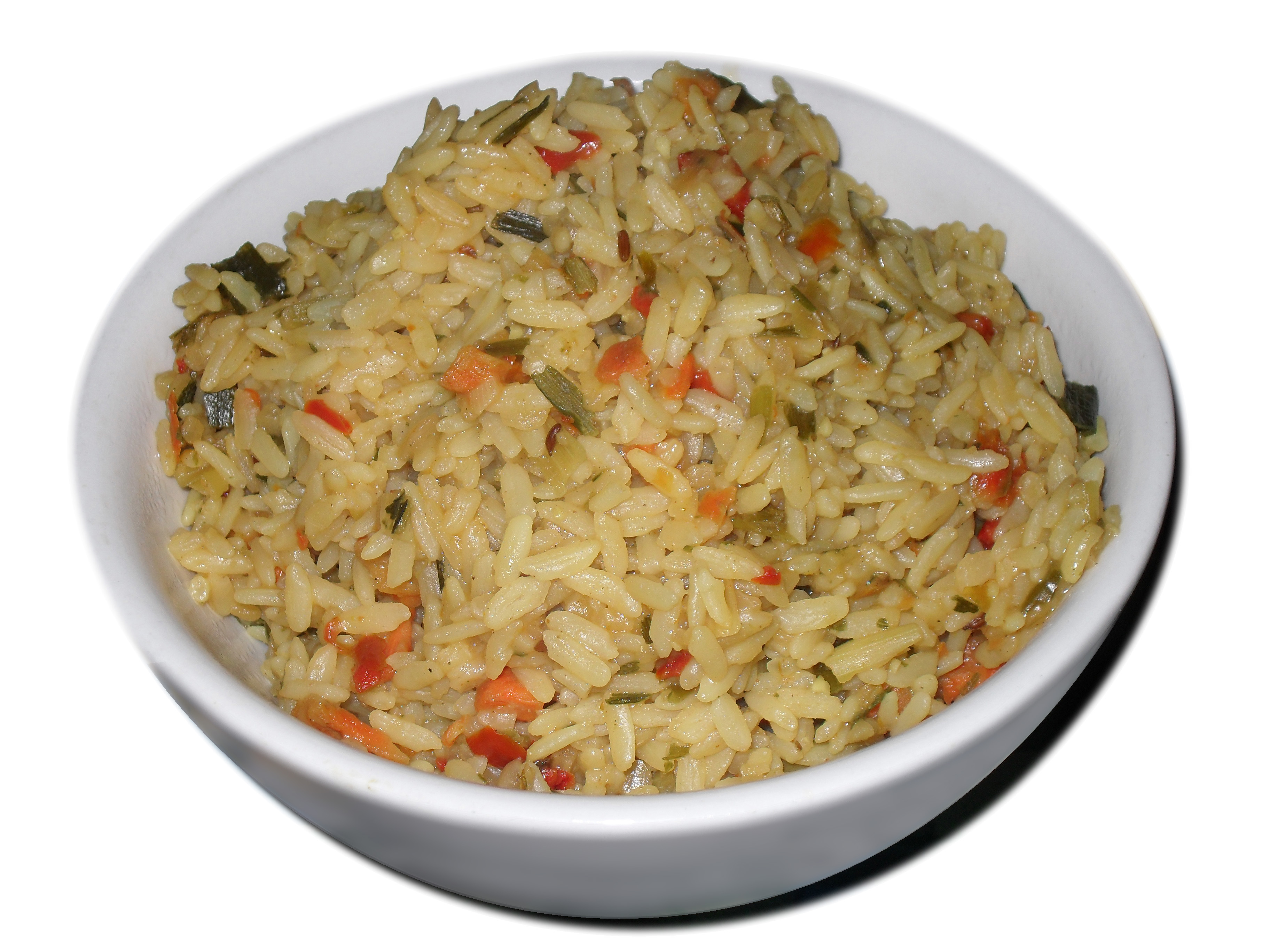 Indonesian spicy dish of rice with vegetables (Nasi Goreng)